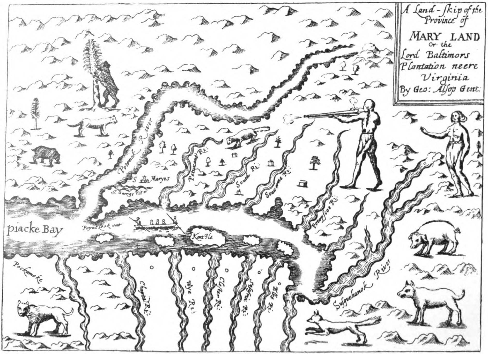 Figure 30 of 1898 publication called Maryland Geological Survey Volume Two, which republished a much older map. Caption: Alsop's Map, 1666. This shows a map created by George Alsop and originally published in 1666, with the title in the upper right "A Land-skip of the Province of Mary land Or the Lord Baltimors Plantation neere Virginia By Geo: Alsop Gent:"